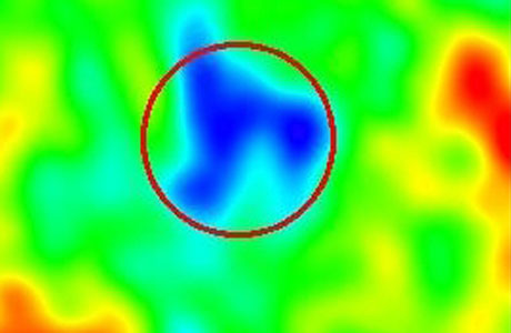 Wilkinson Microwave Anisotropy Probe map of a region of space that is cooler than its surroundings. Considered to be a supervoid. Used at WMAP Cold Spot. Taken from Attributed to Rudnick/NRAO/AUI/NSF, NASA. Circle indicates area in question.